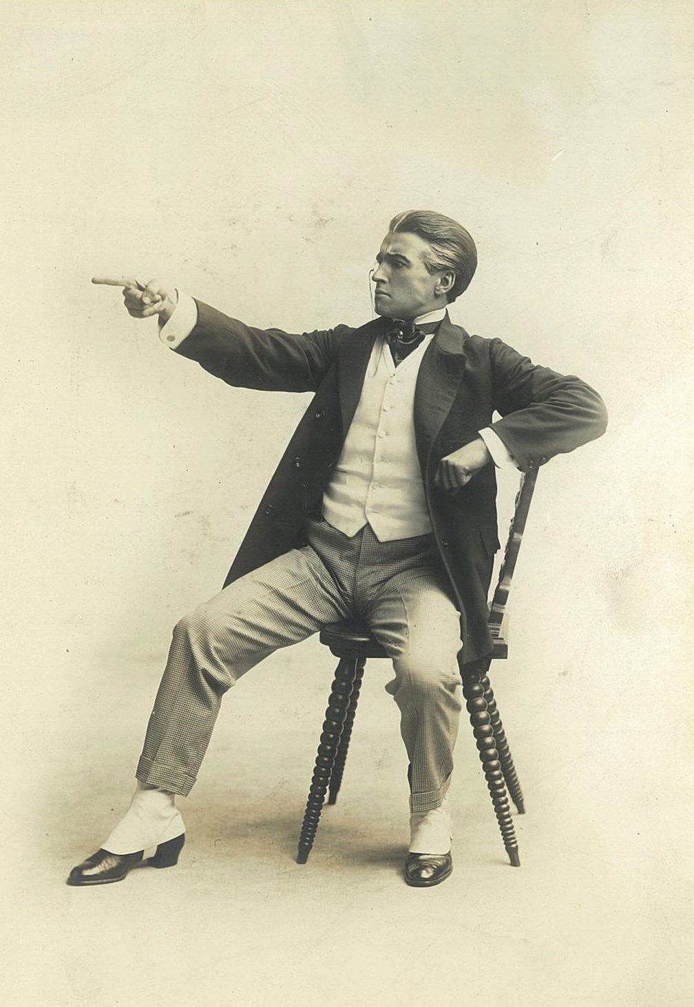 Claude Rains was born in England in 1889 and became a stage actor. In 1912 he toured Australia and can be seen here as a twenty three year old playing a mature and senior lawyer. He was already a successful Broadway actor when he moved to Hollywood for a long run of stardom in major films from 1933 on. Most of the portraits of him seen on the web are of the middle aged Hollywood star of films like "Now, voyager" opposite Bette Davis. The panel still has the pinholes from when the photograph was displayed in the theatre foyers.